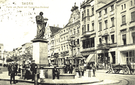 Old German postcard from Thorn (since 1920 Torun, Poland) depicting the Nicolaus Copernicus monument there. Found at , article "Beiträge zu Copernicus und seiner Verwandtschaft" by Hans-Dietrich Lemmel printed in magazine/Zeitschrift "Genealogie" Heft 1-2/1993